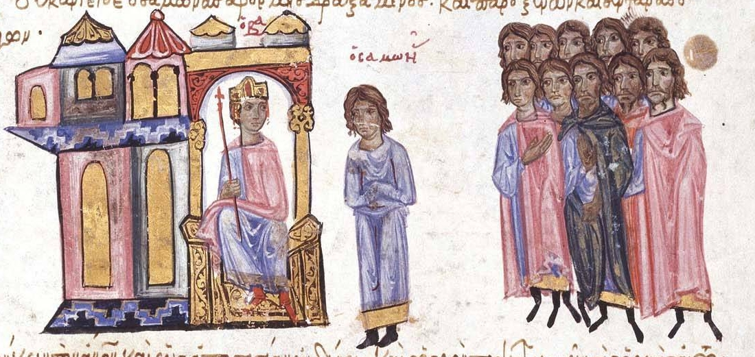 The eunuch chamberlain Samonas (Parakoimomenos) is brought before Emperor Leo for questioning following his failed escape to the Arabs